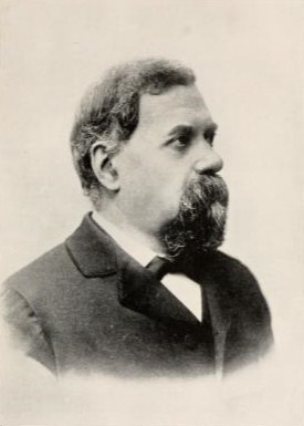 Photograph of the Italian astronomer Giovanni Virginio Schiaparelli (March 14, 1835 – July 4, 1910) was an Italian astronomer and science historian